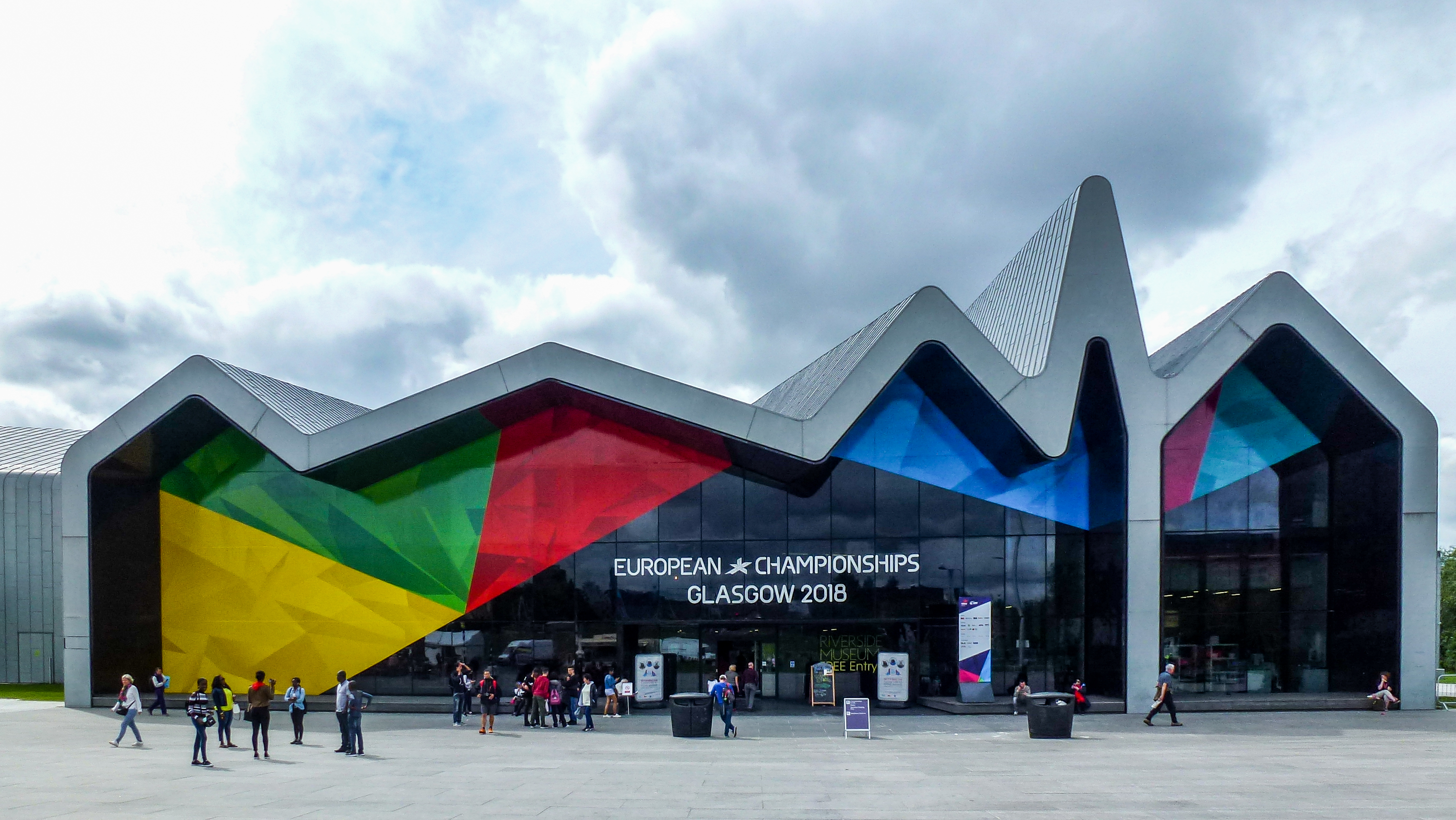 The Riverside Museum Glasgow during the European Championships 2018